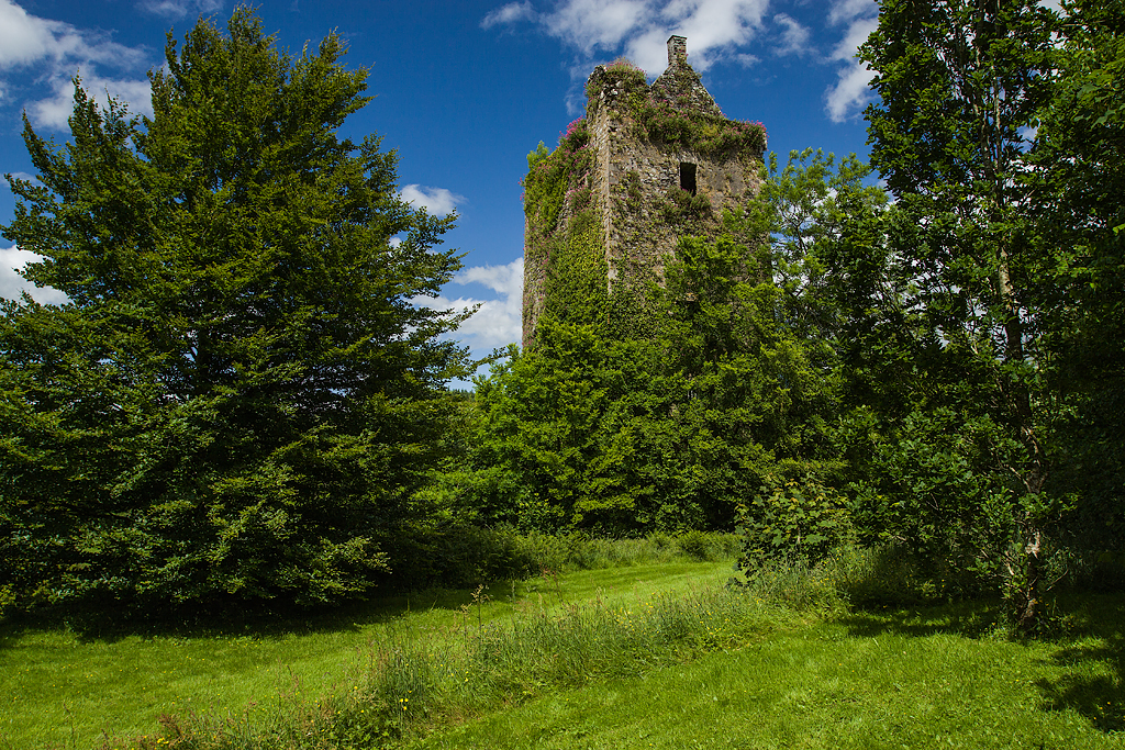 Castles of Munster: Carrignamuck, Cork Cormac Laidir MacCarthy is said to have built this late 15c tower now standing in the grounds of Dripsey Castle. It was during a bombardment by Lord Broghill in 1650 that the east wall was breached.